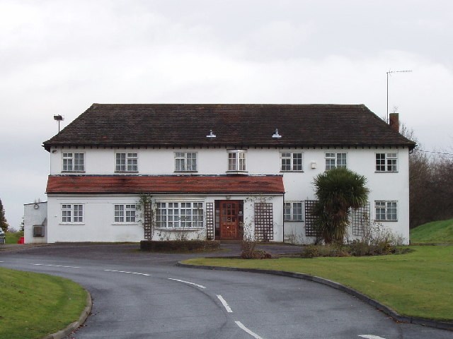 Clinic at Clementine Churchill Hospital, Harrow. The building in the photo used to be the physiotherapy clinic of the Clementine Churchill Hospital, but is out of use now. There is a modern private hospital behind with operating theatres and individual rooms for patients.